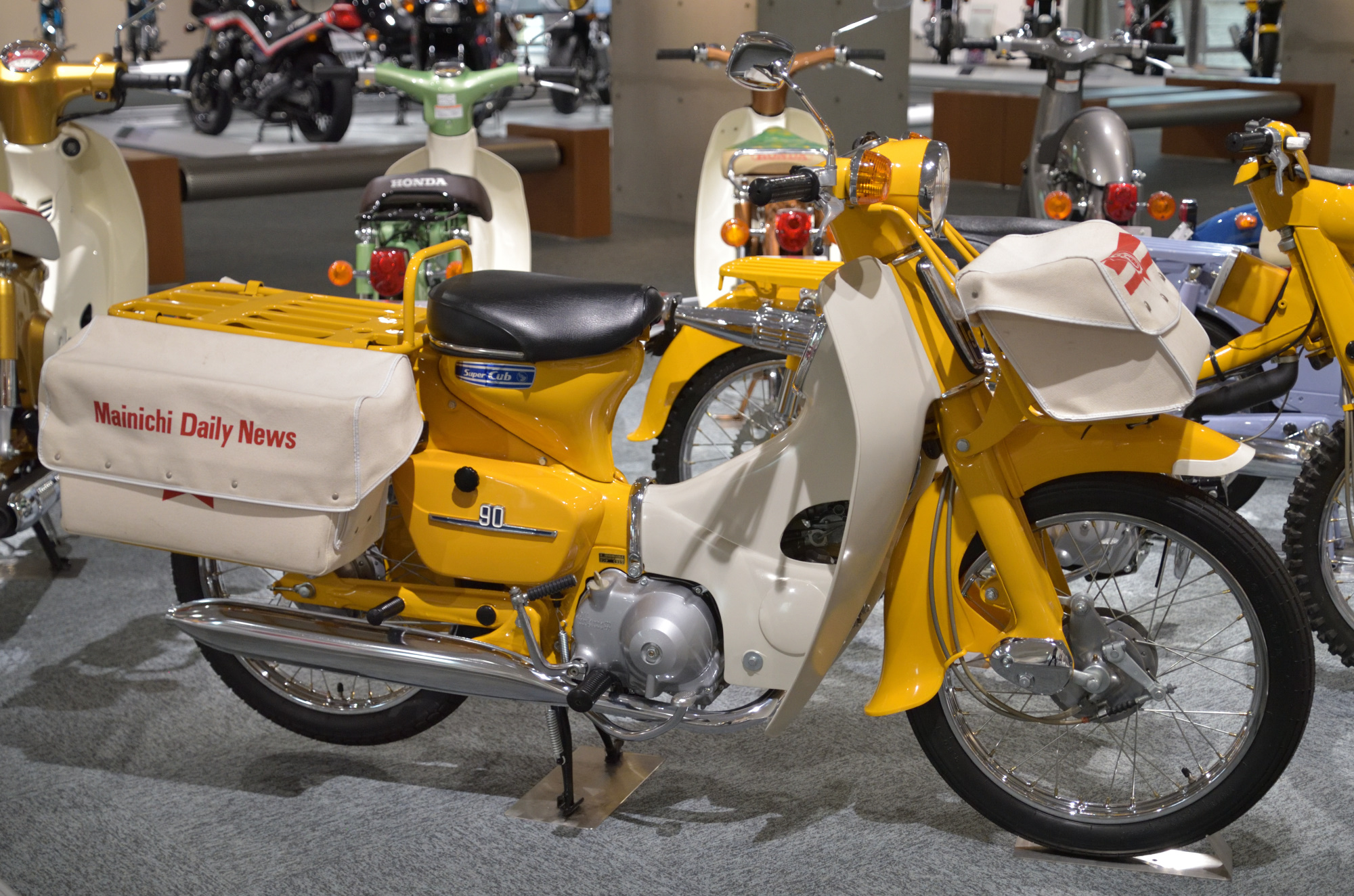 Honda News Cub C90, Honda Super Cub developed for paper round.